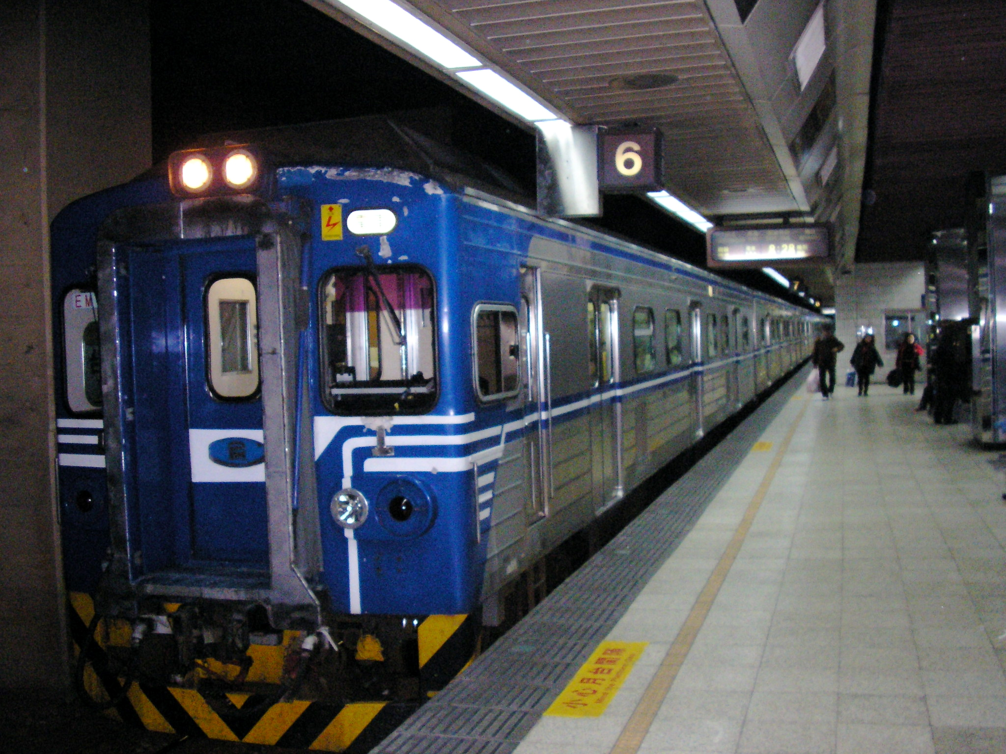 TRA Commuter EMU600 series at Taipei Main Station.